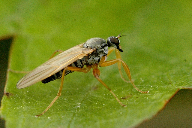 Picture taken in Commanster, Belgian High Ardennes . Species: Platypalpus agilis